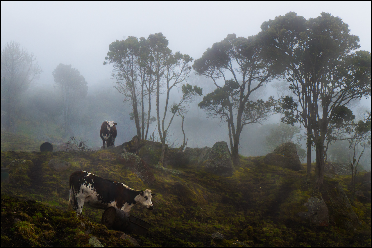 Colombian landscape in the Andes about 30 minutes outside Bogota on the road to Choachi.